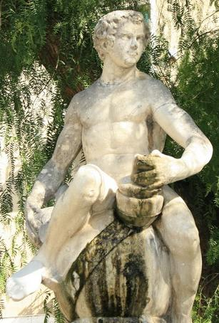 Messina (Italy) - Fontana Gennaro